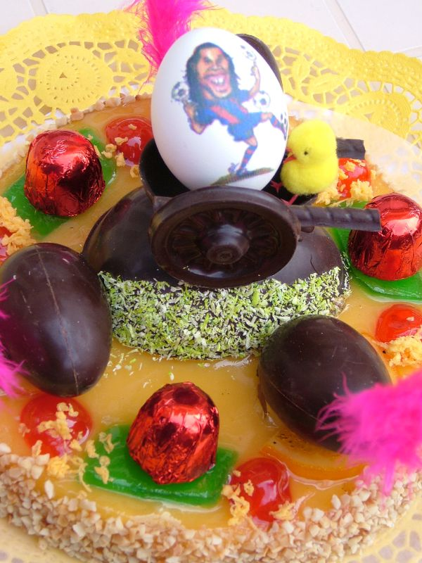 Mona de pasqua, Catalan typical dessert of Easter